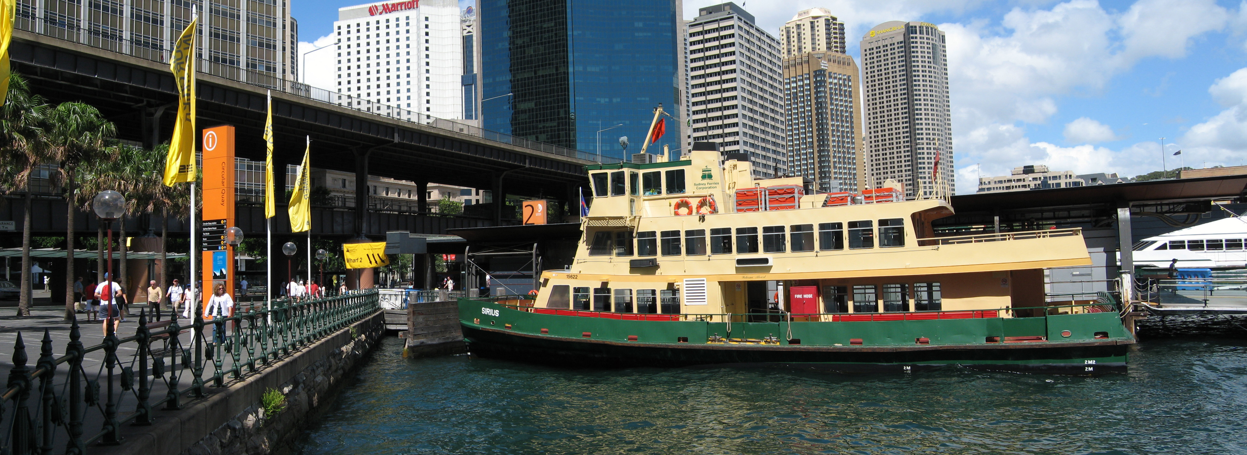 Sydney Ferry Sirius (First Fleet class), Circular Quay, Sydney, Australia.